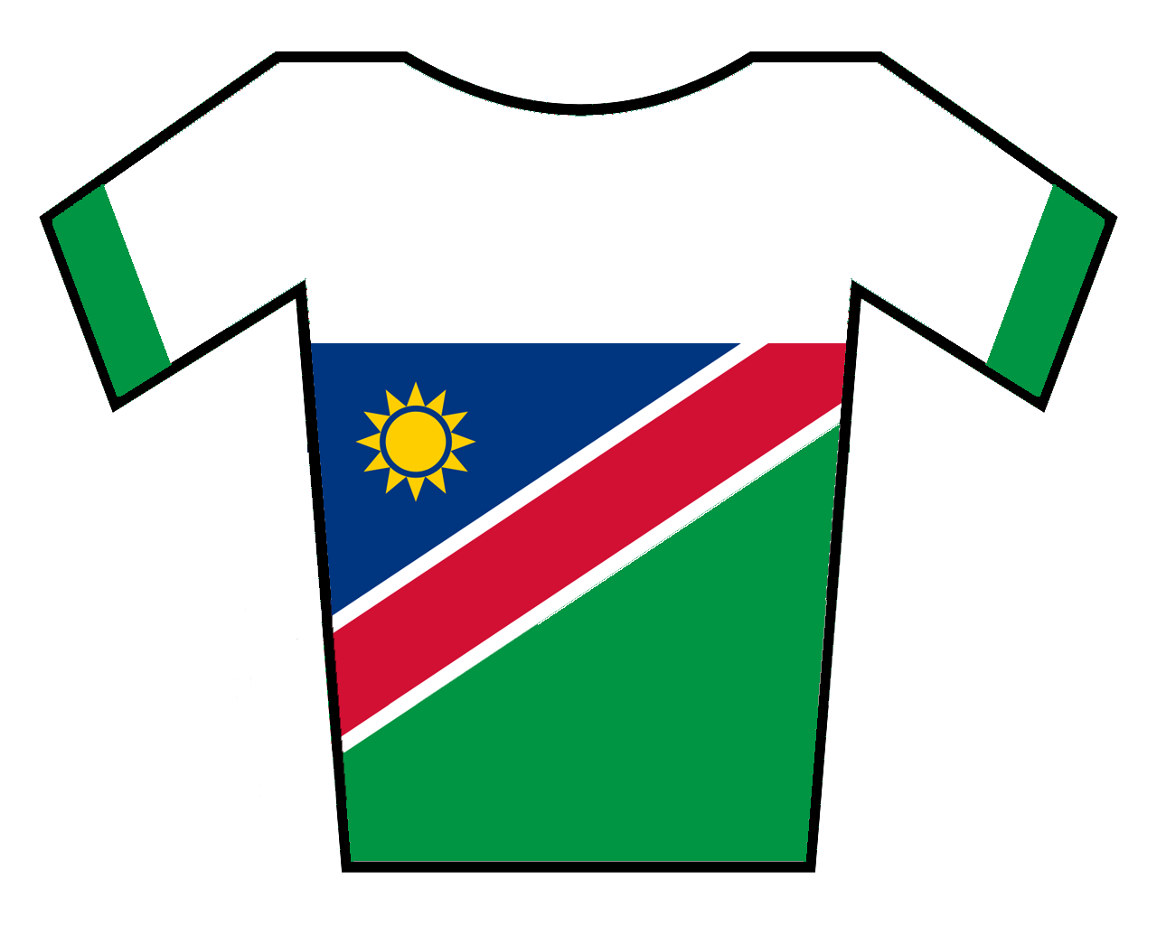 Champions jersey of Namibia